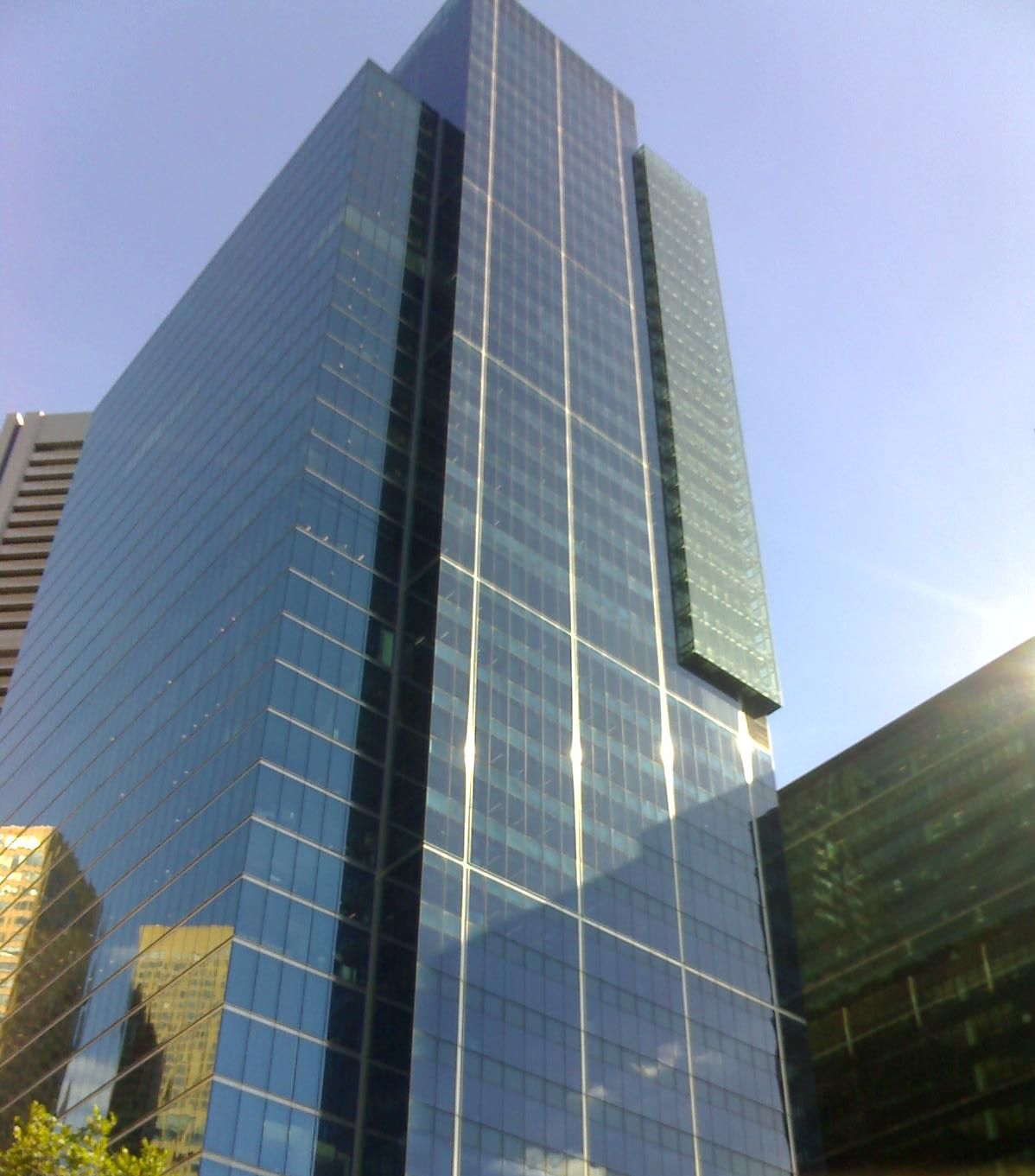 Southern Cross Tower - East Tower. Picture depicts the north side of the tower. Picture taken from Exhibition Street in Melbourne, Victoria, Australia.